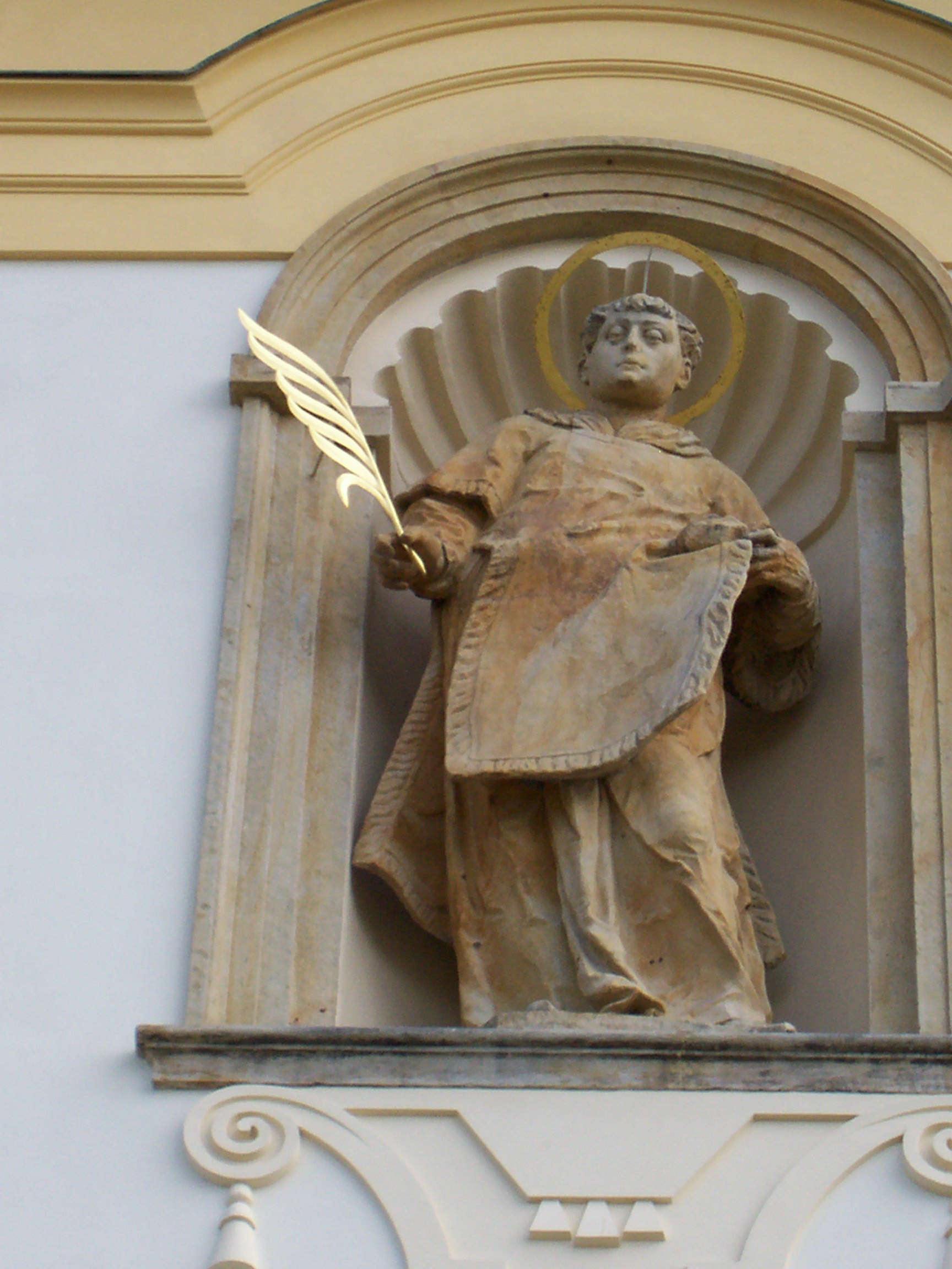 Svatý Kopeček: St Mary's Minor Basilics - Thomas Aquinas